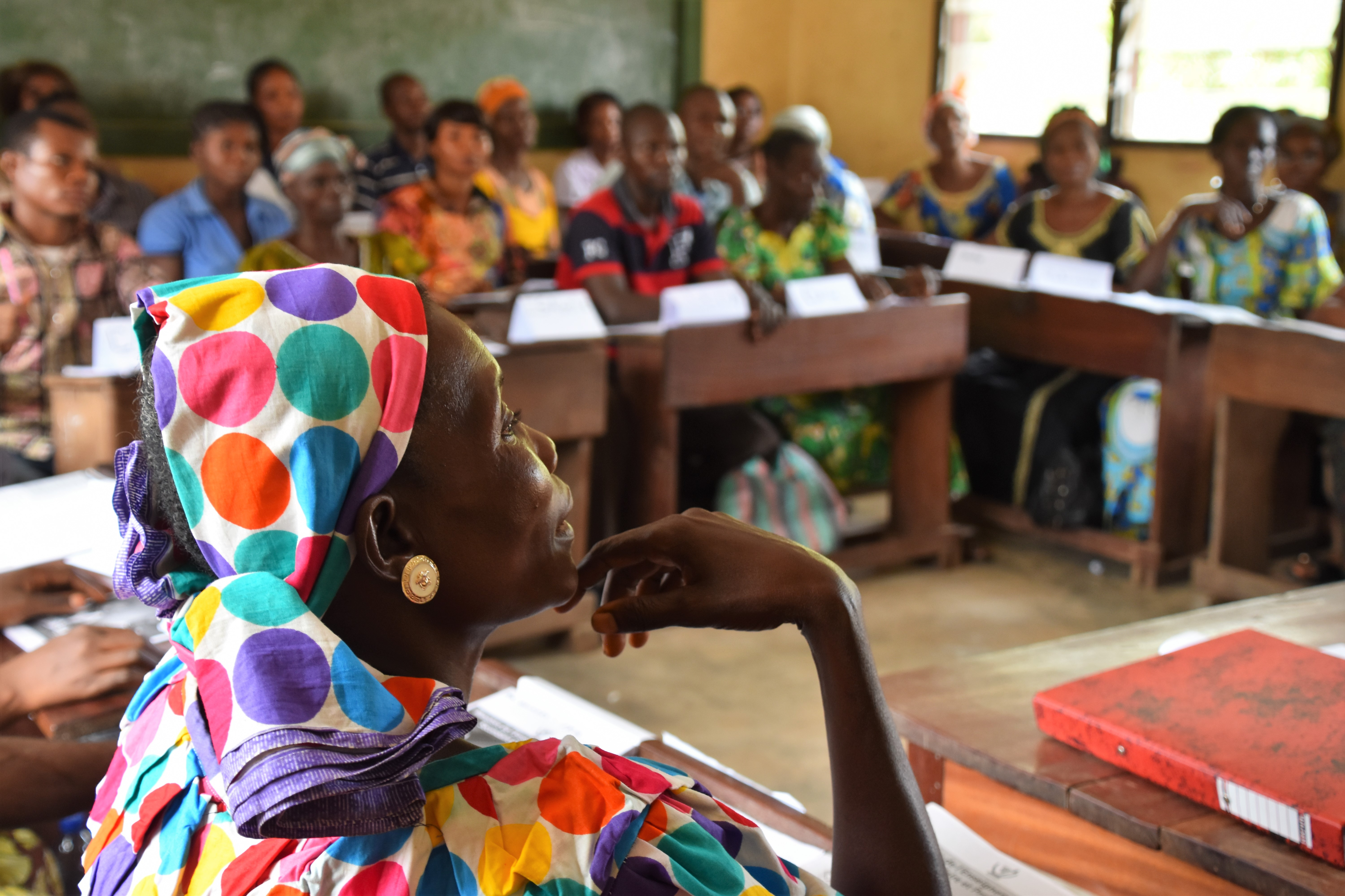 A USAID-supported training session for teachers in Mbandaka, northern DRC. In FY 2017, USAID trained over 15,000 teachers in Grades 1-4 to promote evidence-based early grade reading instruction. The focus of training included the use of reading instruction materials developed for Grades 1 and 2 in three national languages and oral French, and for both formal and non-formal schools. Teachers in Grades 3 and 4 were trained to use supplemental instructional resources to improve reading instruction in their classrooms. Photo credit Julie Polumbo @USAIDEastAfrica